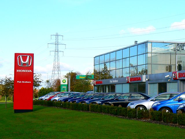 Honda dealership. West Swindon The stretch of Great Western Way runs north-south between two roundabouts along the gridline at this point. Between them are several modern car retailers. This one is a Honda dealer.